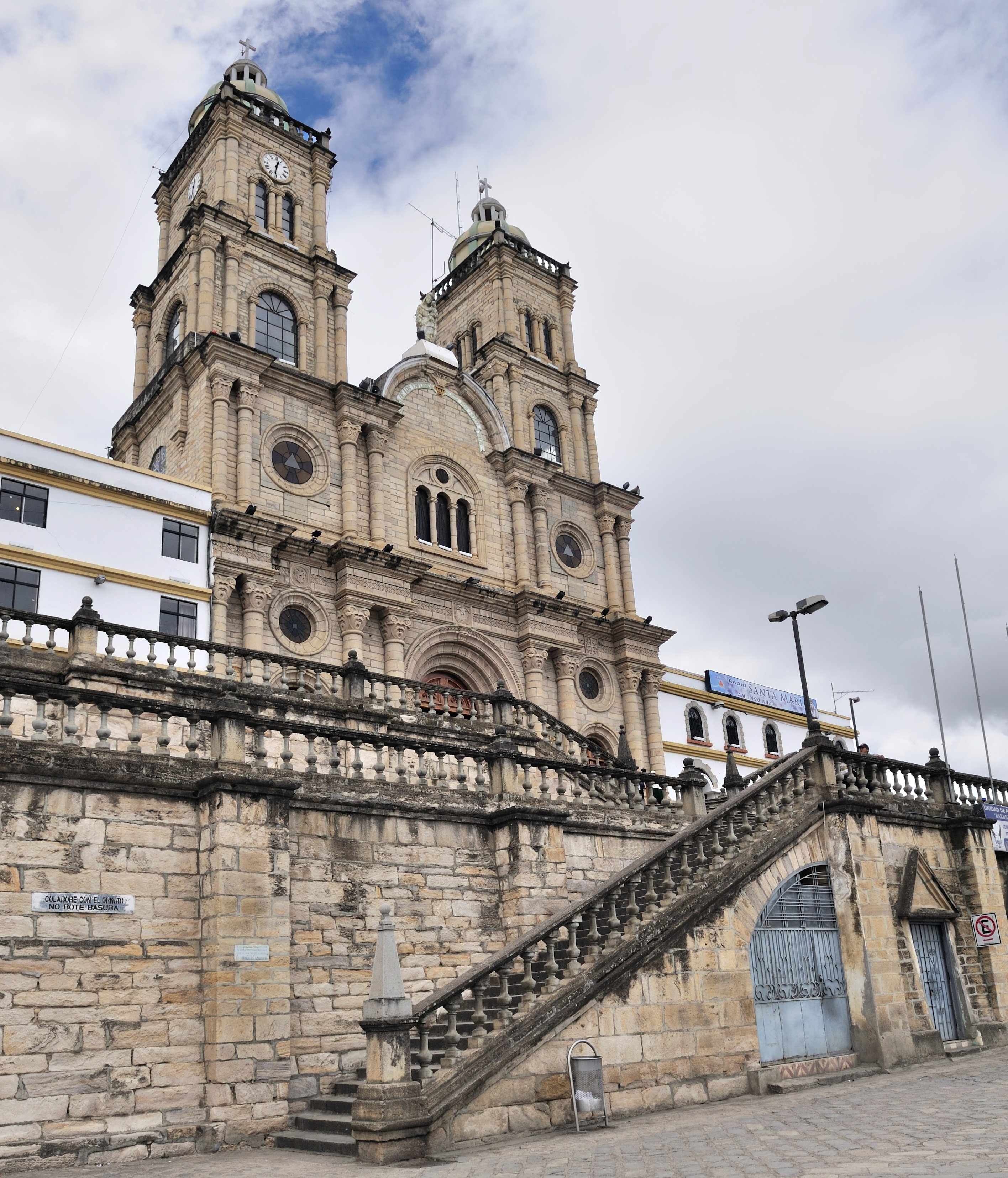 Azogues, Ecuador: Iglesia San Francisco.